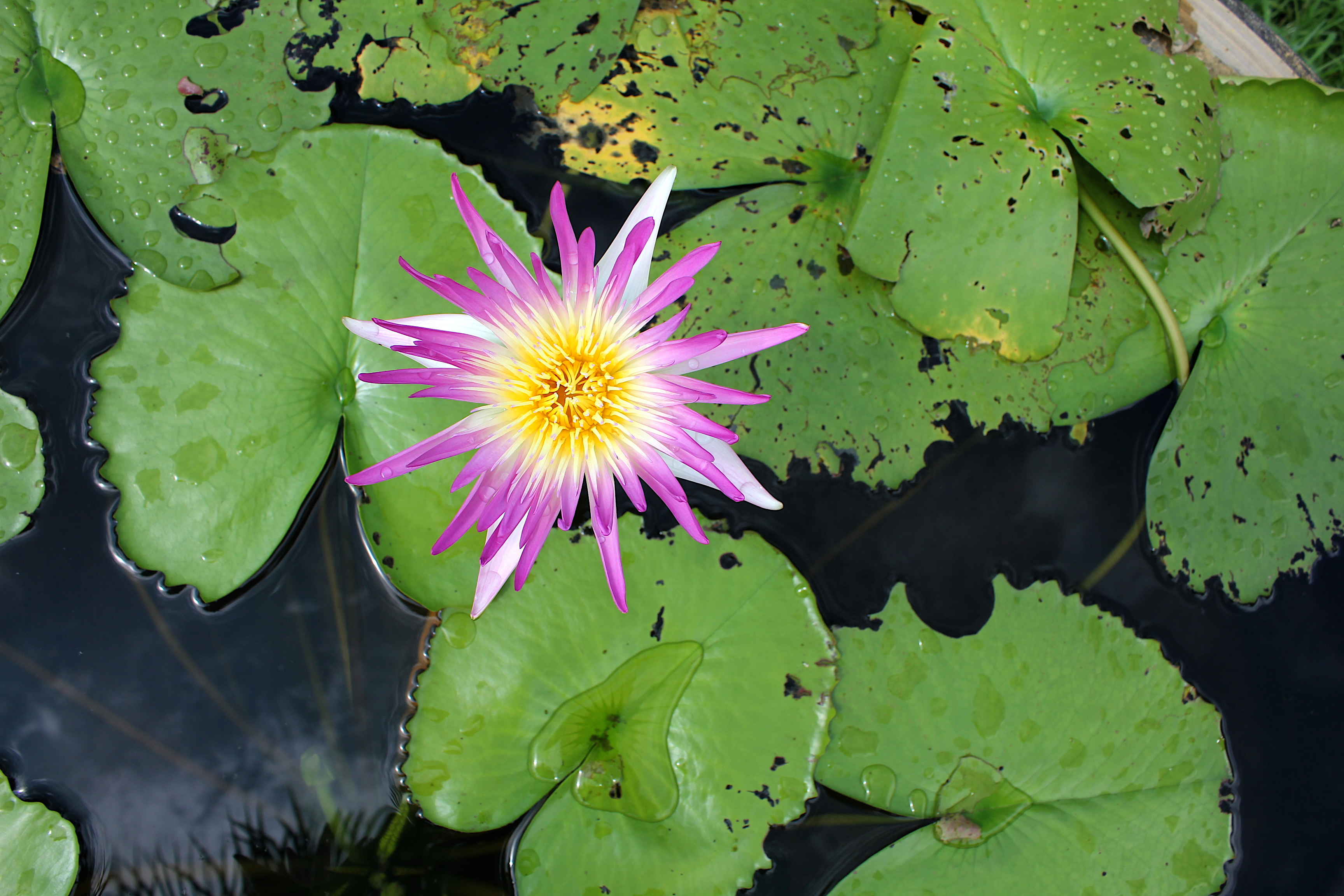 by Trisorn Triboon